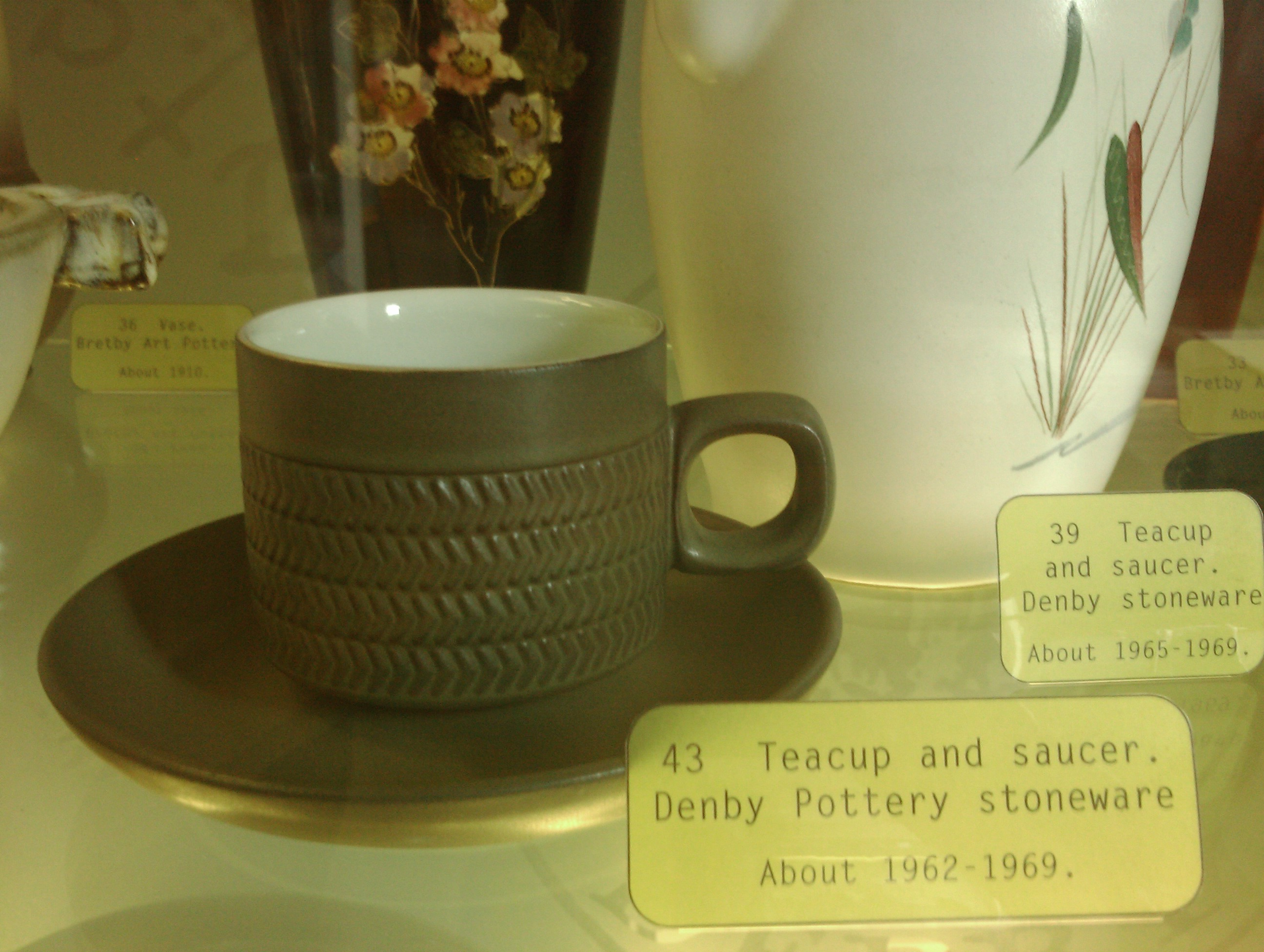 Denby coffee pot cup and saucer - now in Derby Museum